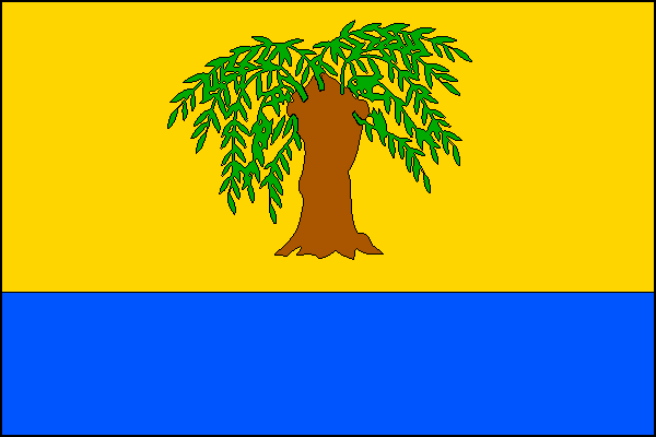 Municipal flag of Hrubá Vrbka village, Hodonín District, Czech Republic.